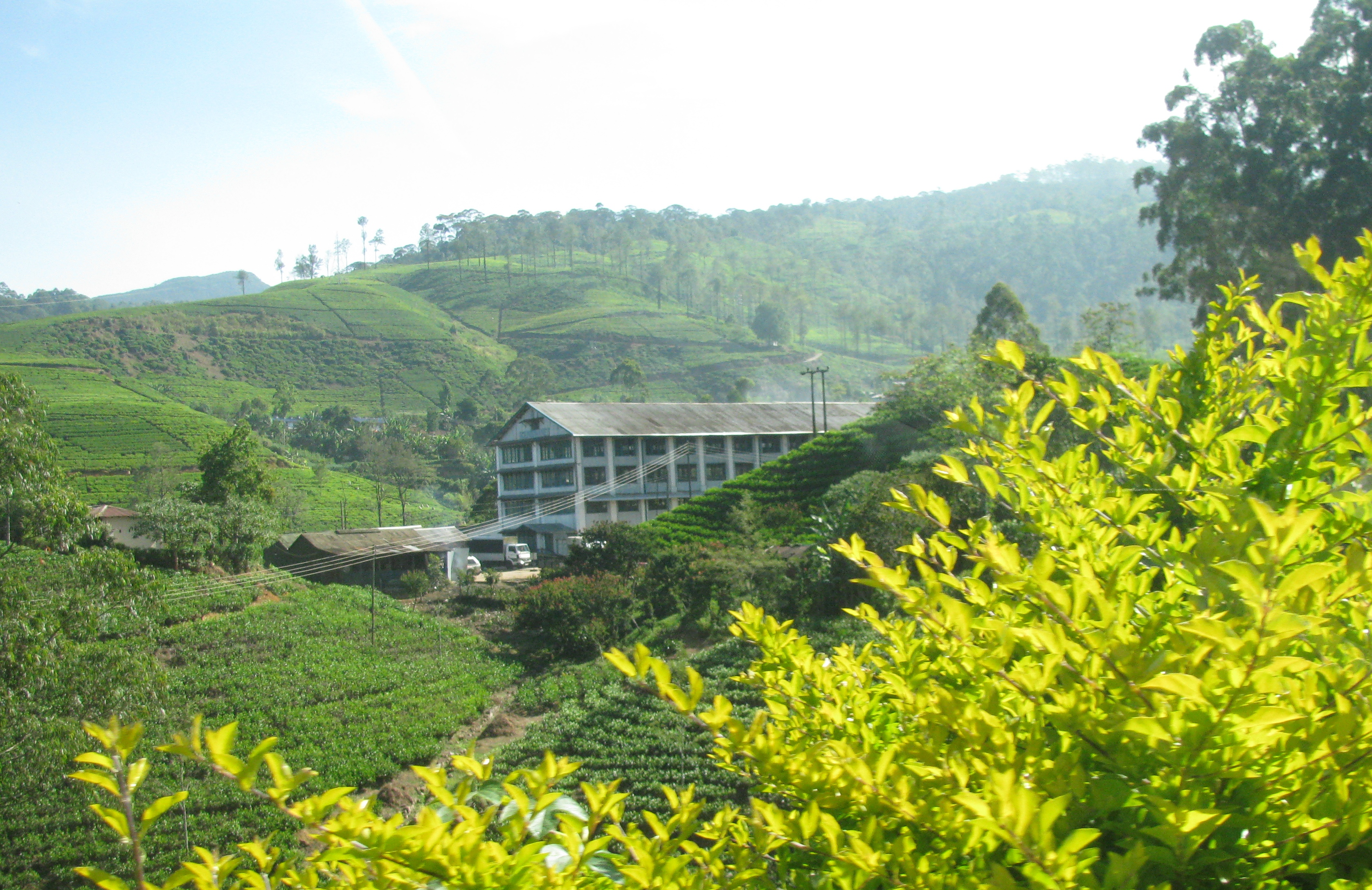 View of the factory and surounding estate grounds